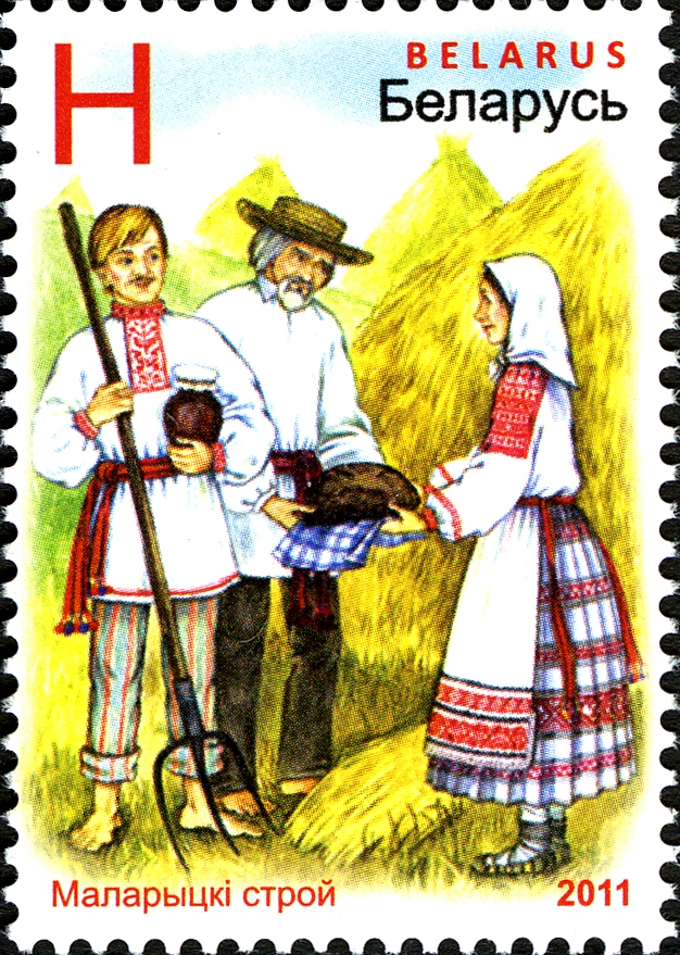 Costumes of Malorita